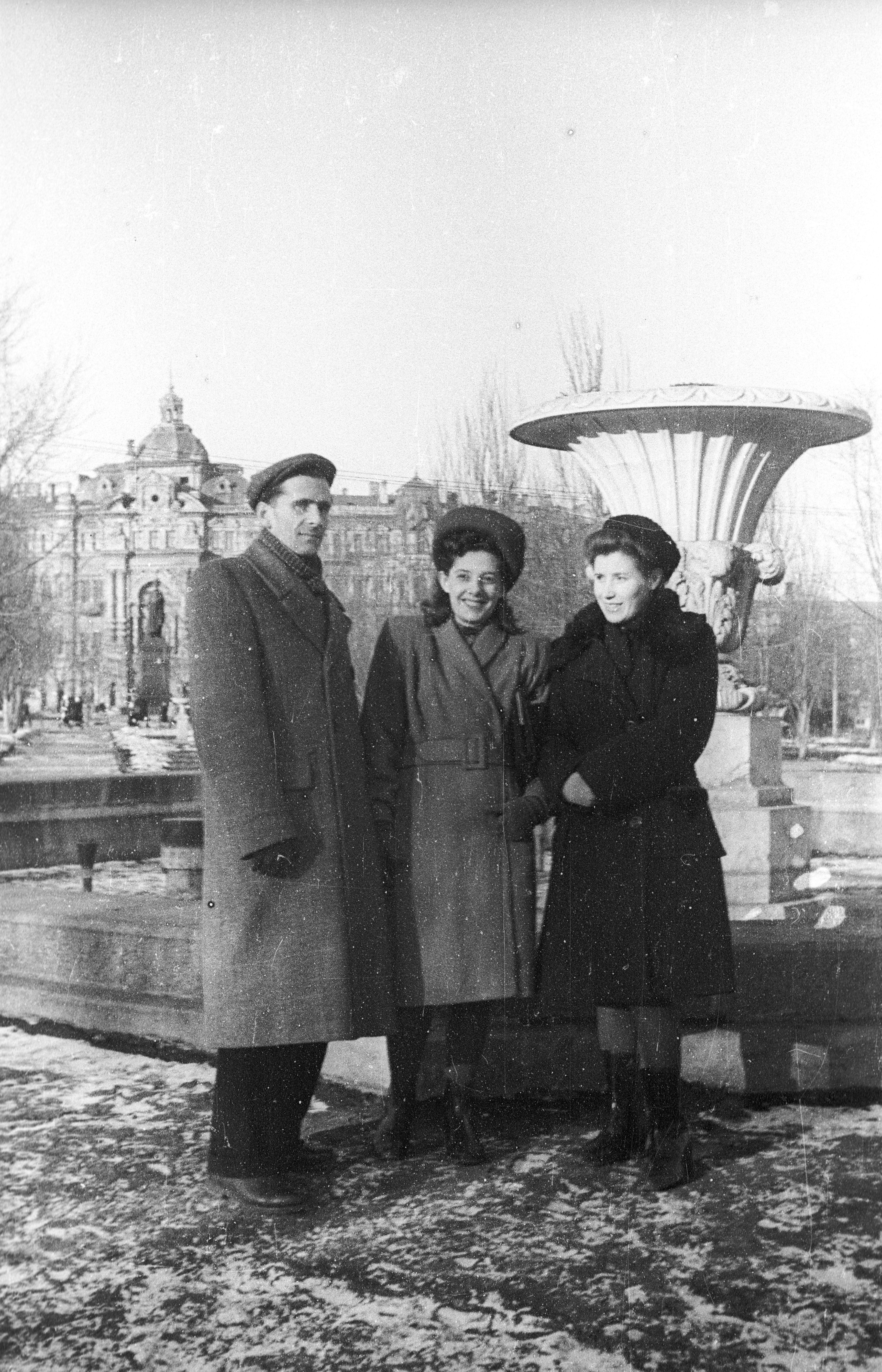 Cathedral Square in Odessa in 1950. Fountain-monument in honor of the opening of the city water supply (Vaze of Filatov).